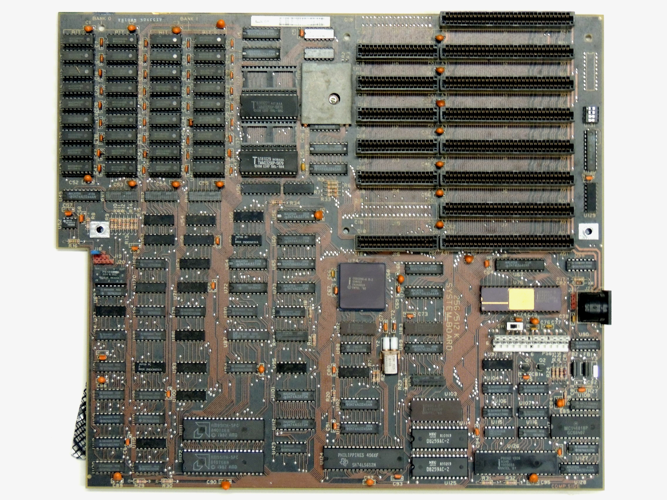 Photo of original (1984) IBM PC AT (5170) System Board [1]